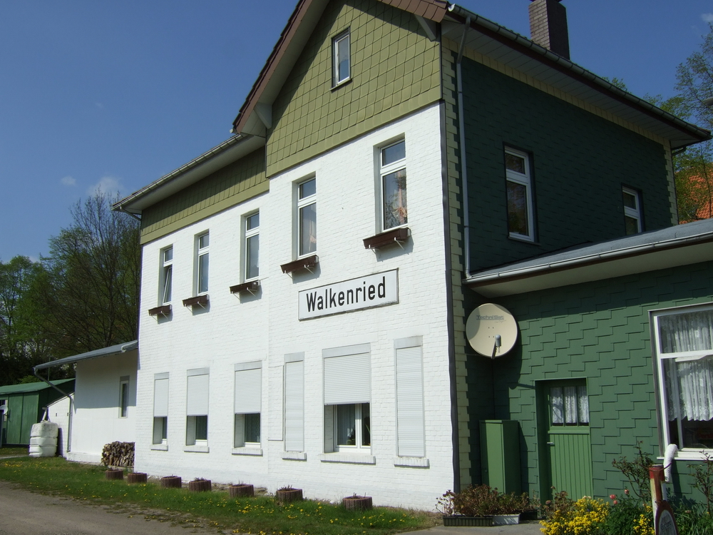 Former railway station Walkenried of Südharz-Eisenbahn-Gesellschaft, pictury taken by Dr. Karl Schlemmer in May 2008